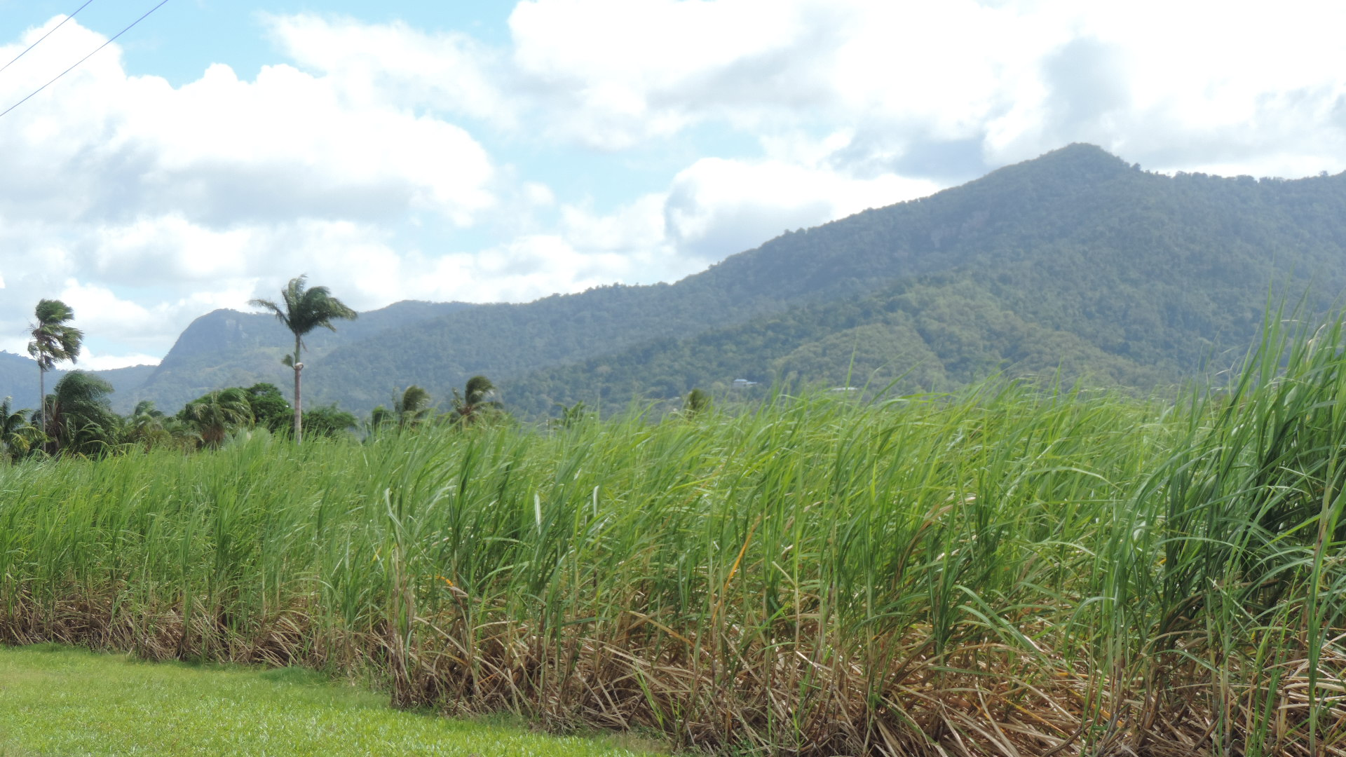 View of sugarcane growing, Walker Road, Yorkeys Knob, 2018